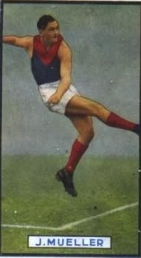 Photo of Jack Mueller taken in 1939